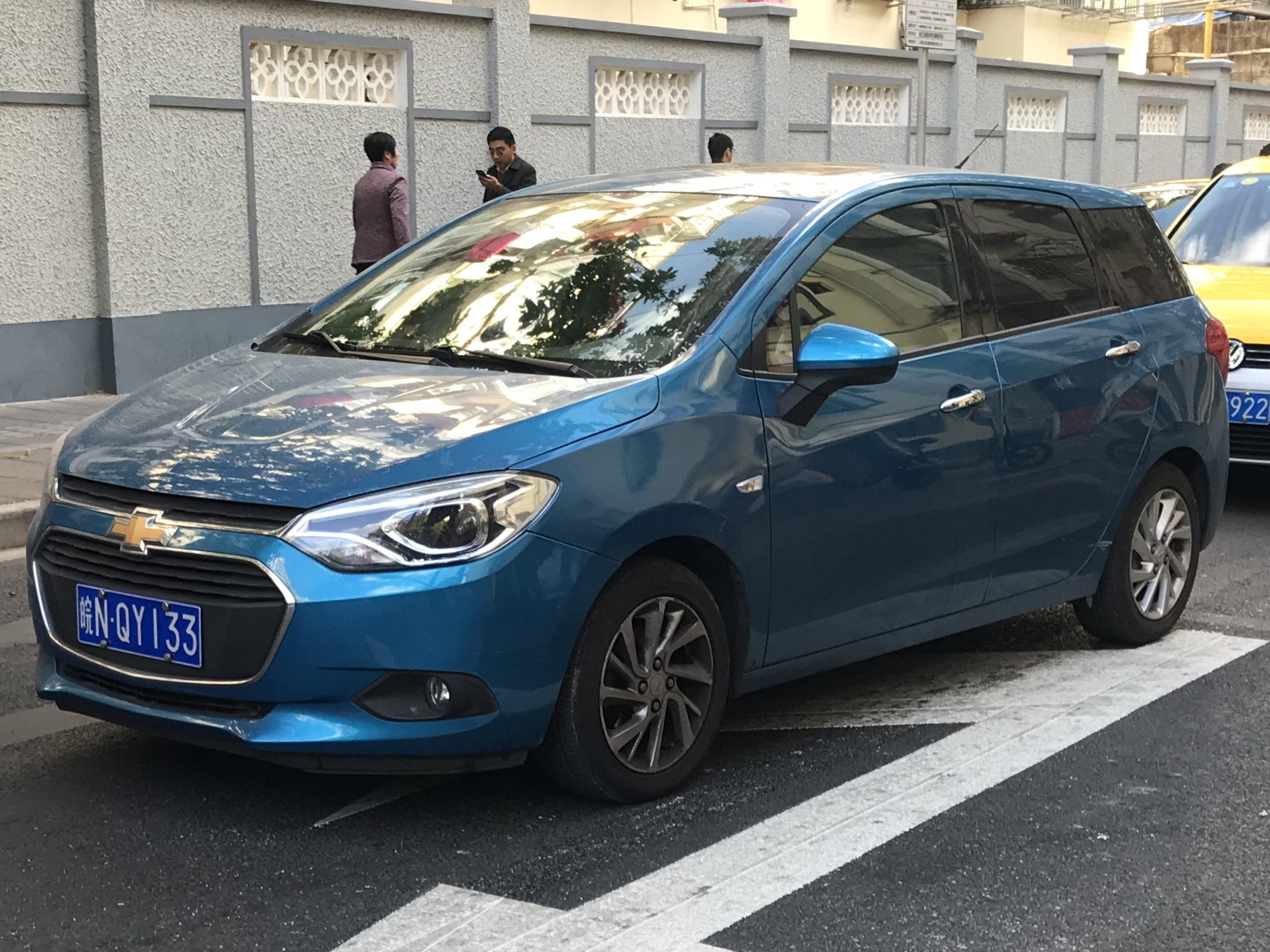 Chevy Lova RV In Shanghai, China.